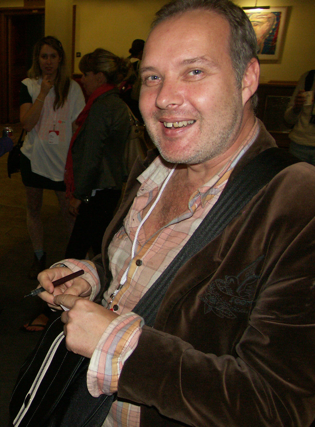 Font designer Jos Buivenga